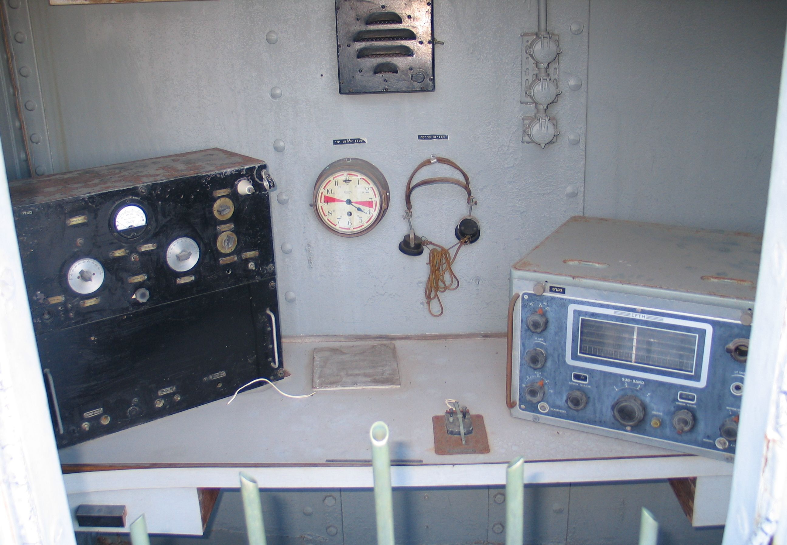 The radio room of the Af al pi chen ship in the Clandestine Immigration and Naval Museum, Haifa, Israel.